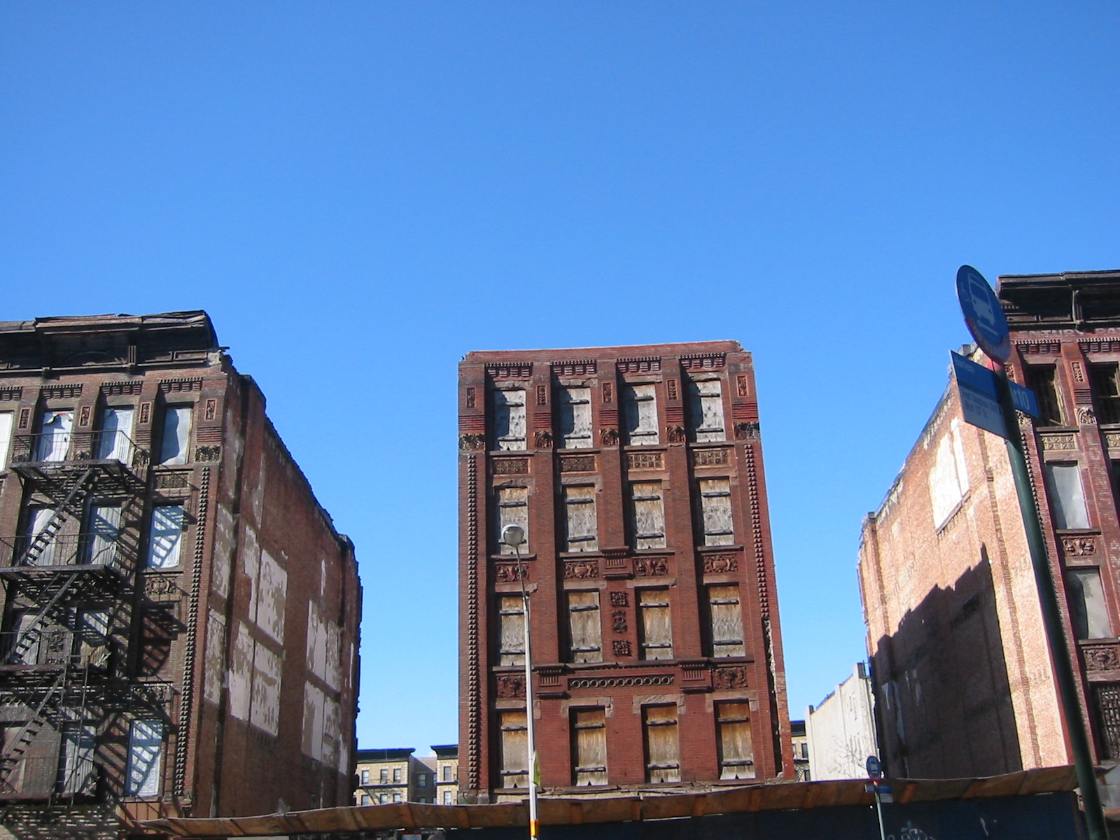 Urban decay. Harlem, New York City, USA Photograph by Susan Murray For use by Wikipedia.